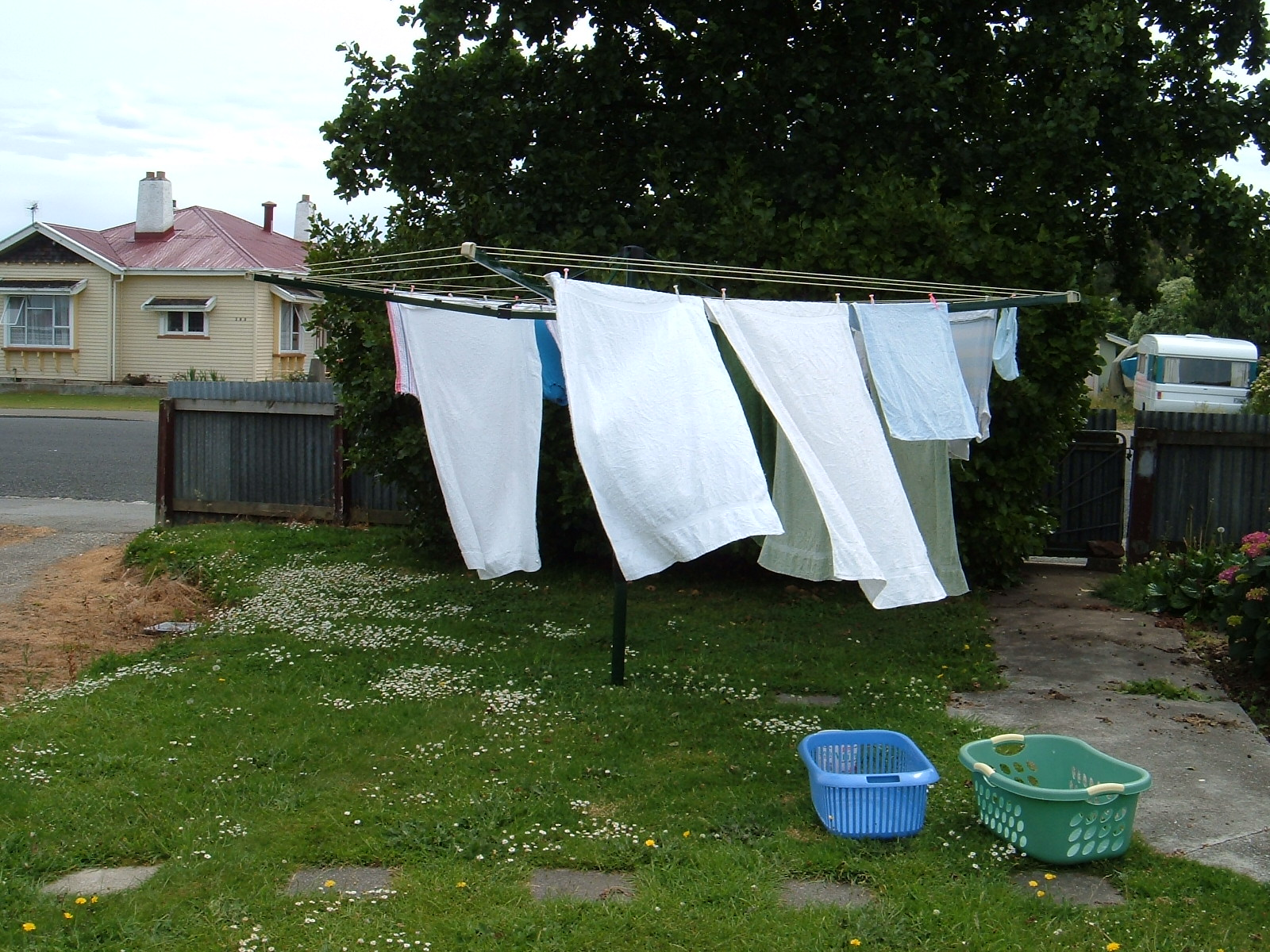 A rotary clothes line in Invercargill, New Zealand. Only a couple of years old. Shaft can go up and down by turning a handle (which is obscured by one of the towls.